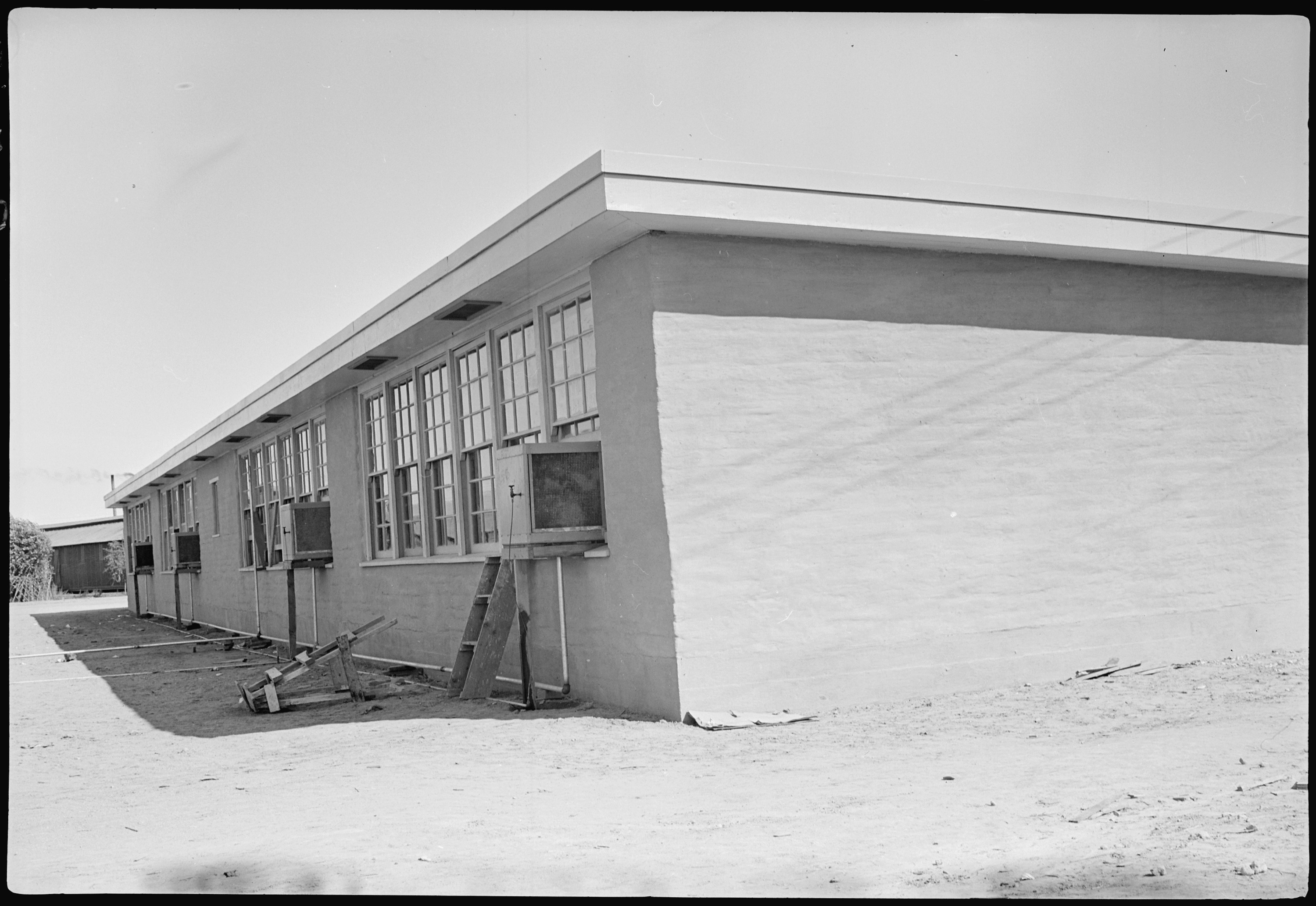 Scope and content: The full caption for this photograph reads: Colorado River Relocation Center, Poston, Arizona. New adobe school buildings erected at this center for use at the opening of the fall term of school.